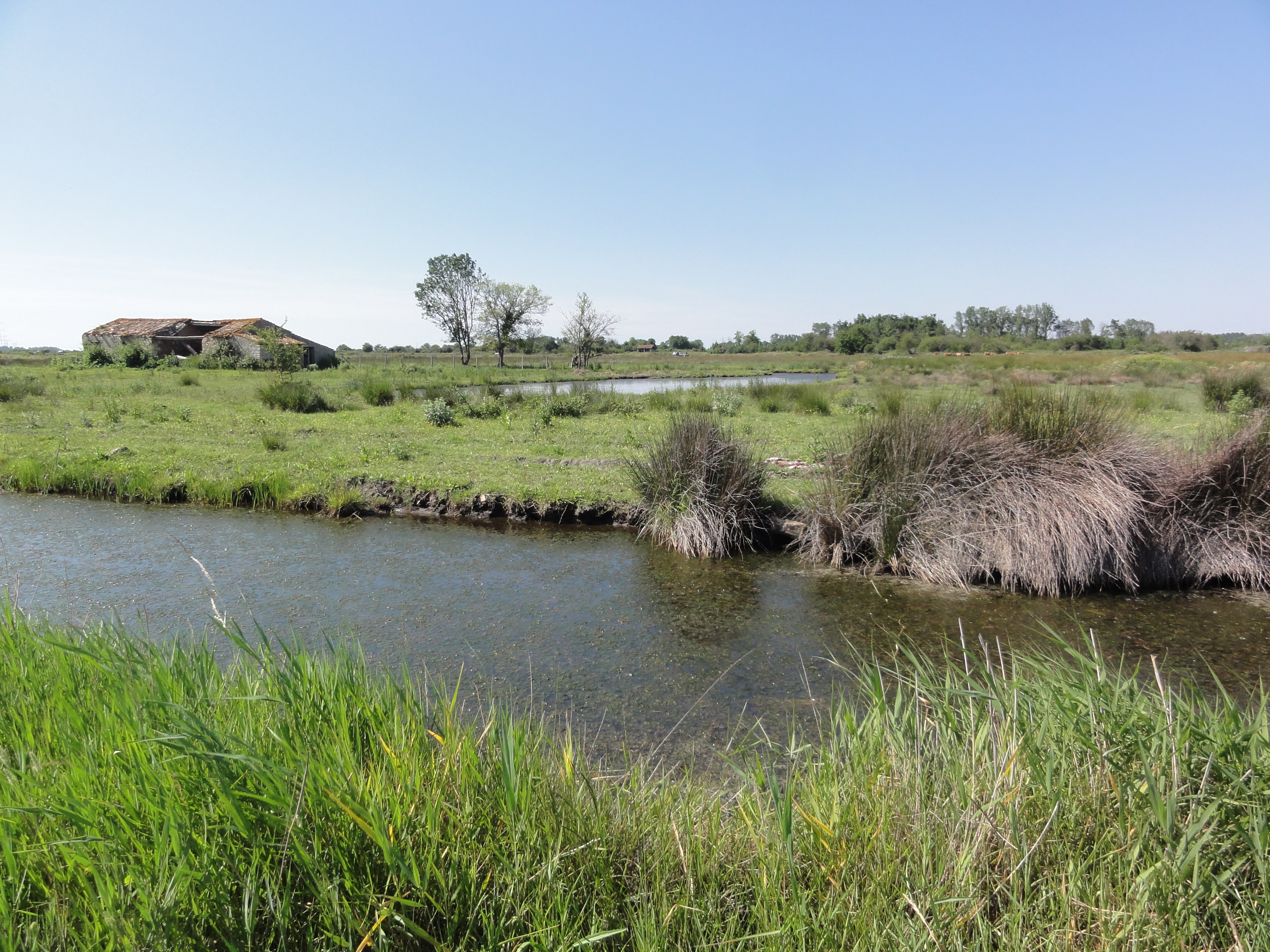 Braud-et-Saint-Louis (Gironde) marais 01